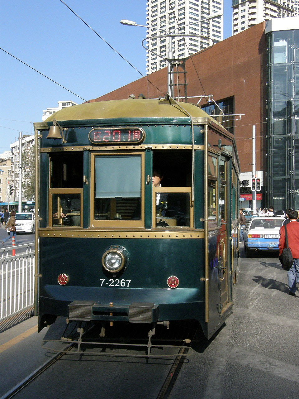 Dalian Tram大连有軌電車